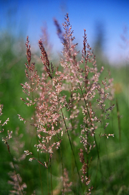 Rough fescue (Fescue scabrella) has been recognised as Alberta's official grass. A montane and subalpine species, it is commonly found in dry meadows, and grows to a height of between 10 and 50 cm. Ø2004 D. Windrim Captioned As { }